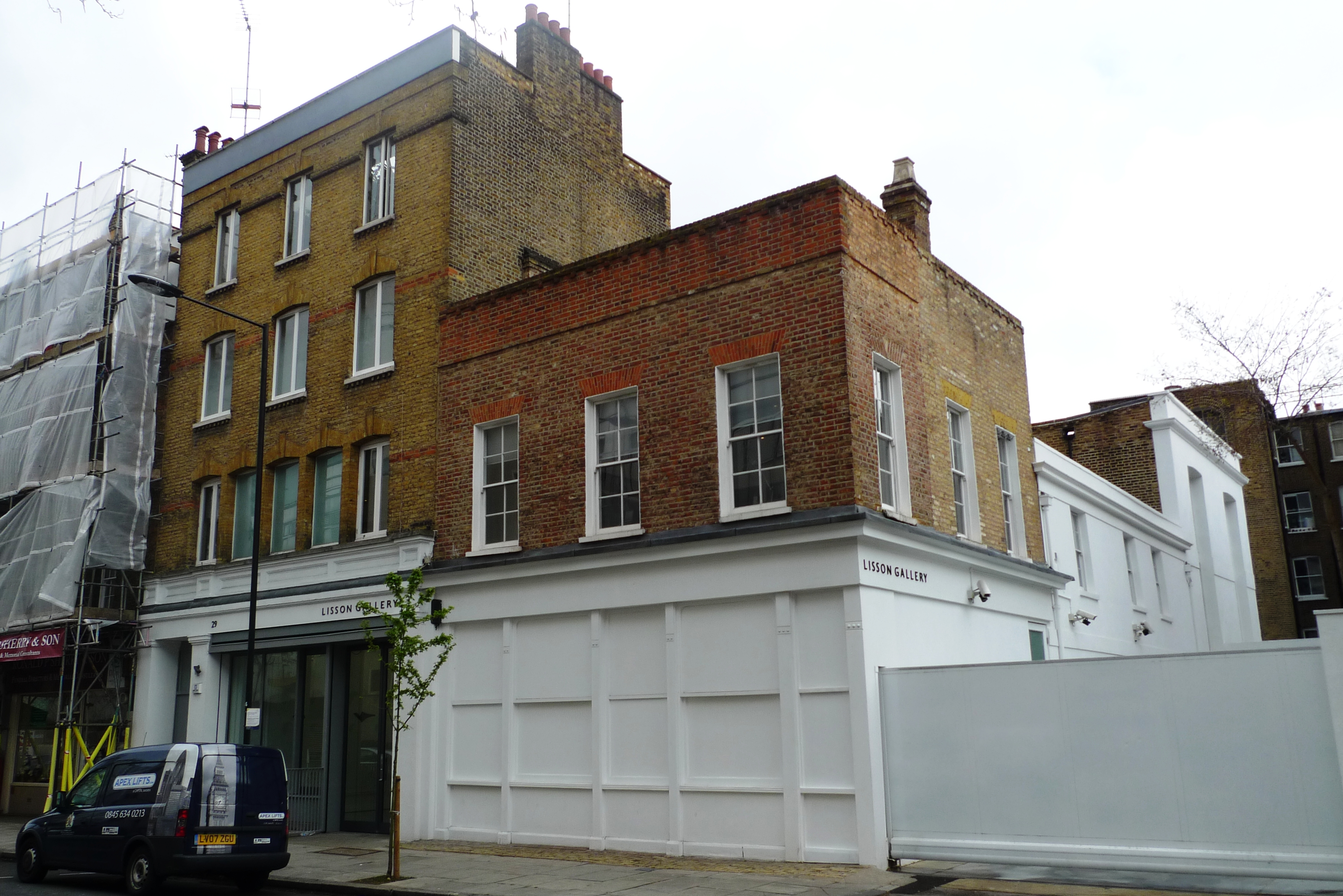 A gallery which takes up a number of properties on this street (including another on the other side). The building on the corner (number 31), nearest in the photo, used to be a pub (a long time ago, when it was numbered 19 Bell Street). Address: 29-31 Bell Street. Former Name(s): The Golden Key (31 Bell Street). Owner: (website). Links: Dead Pubs (history)